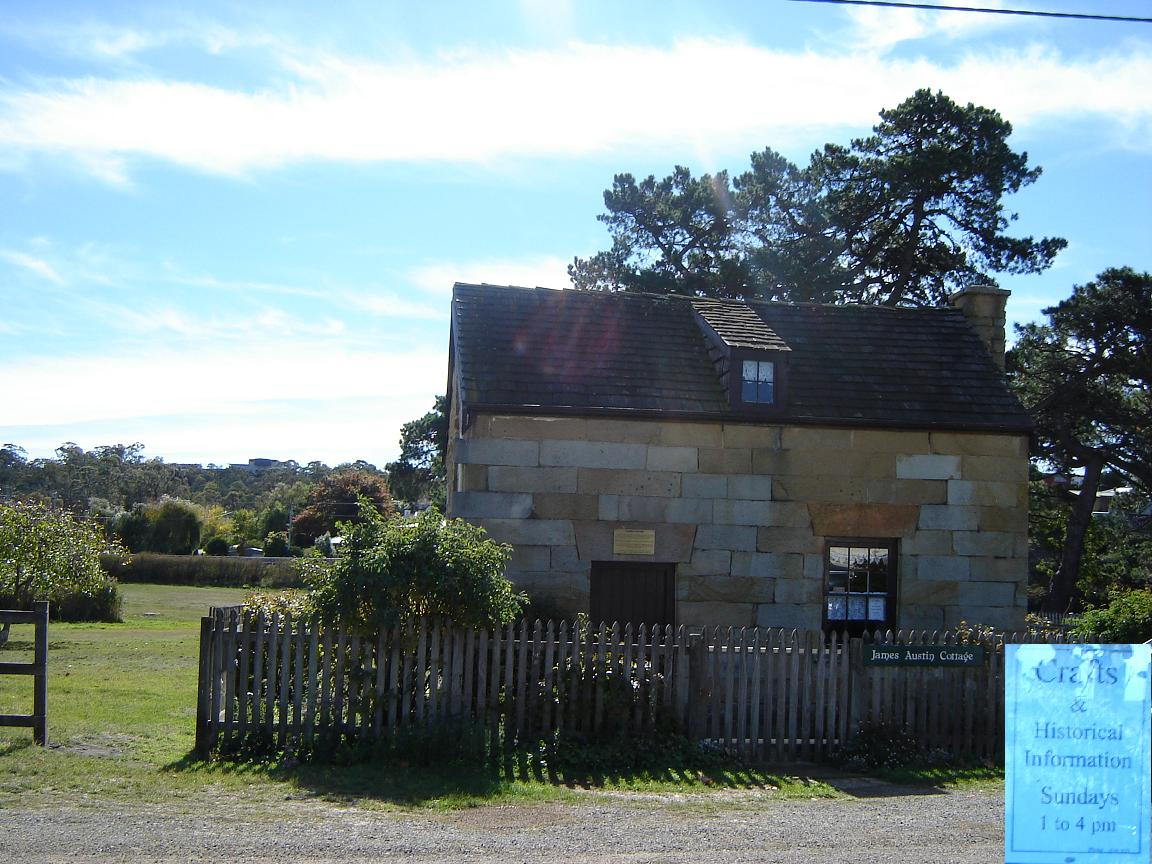 James Austins Cottage, Austins Ferry, Tasmania, Australia